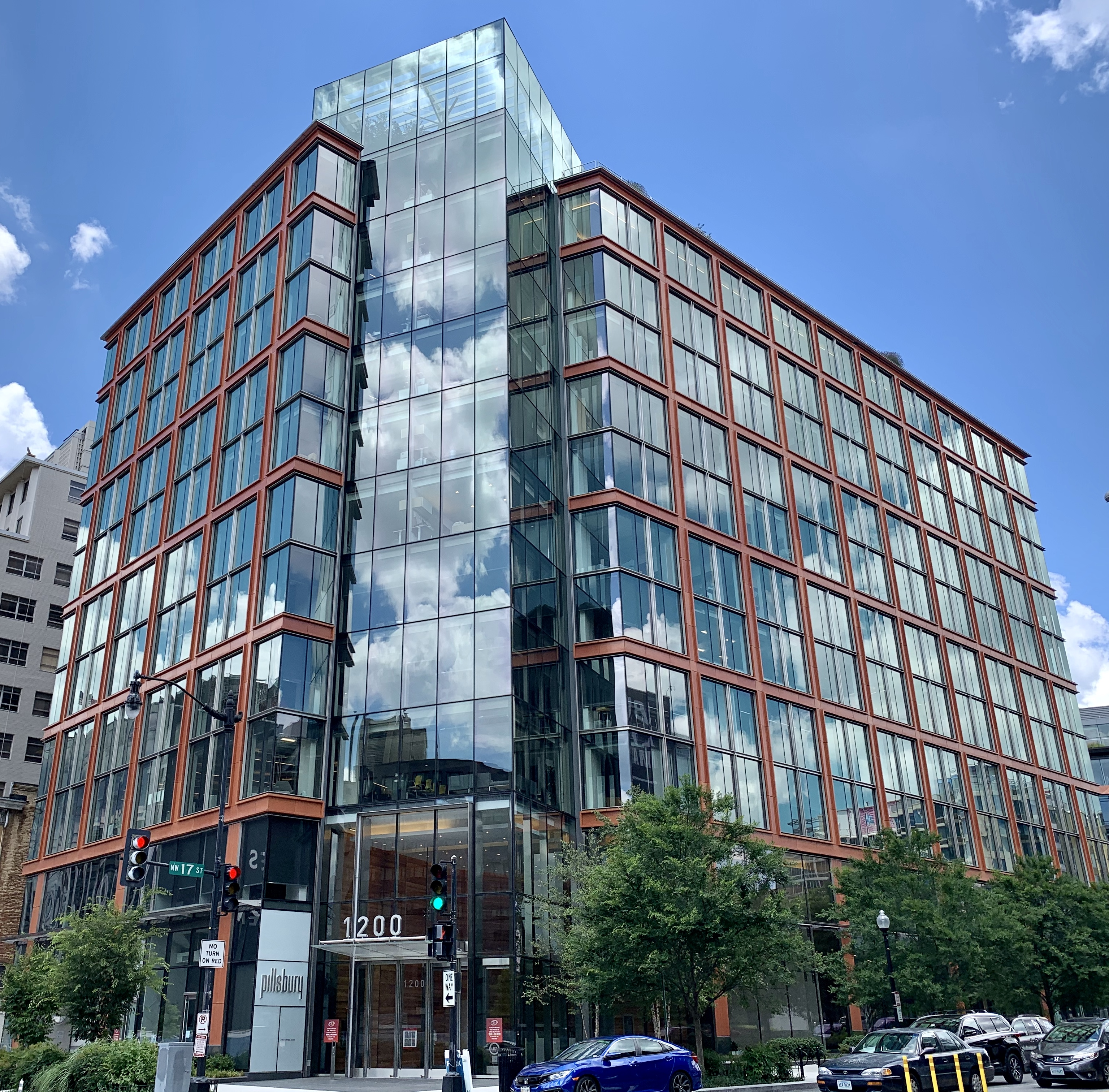 1200 17th Street NW in Washington, D.C. is an office building completed in 2014 and designed by ZGF Architects.